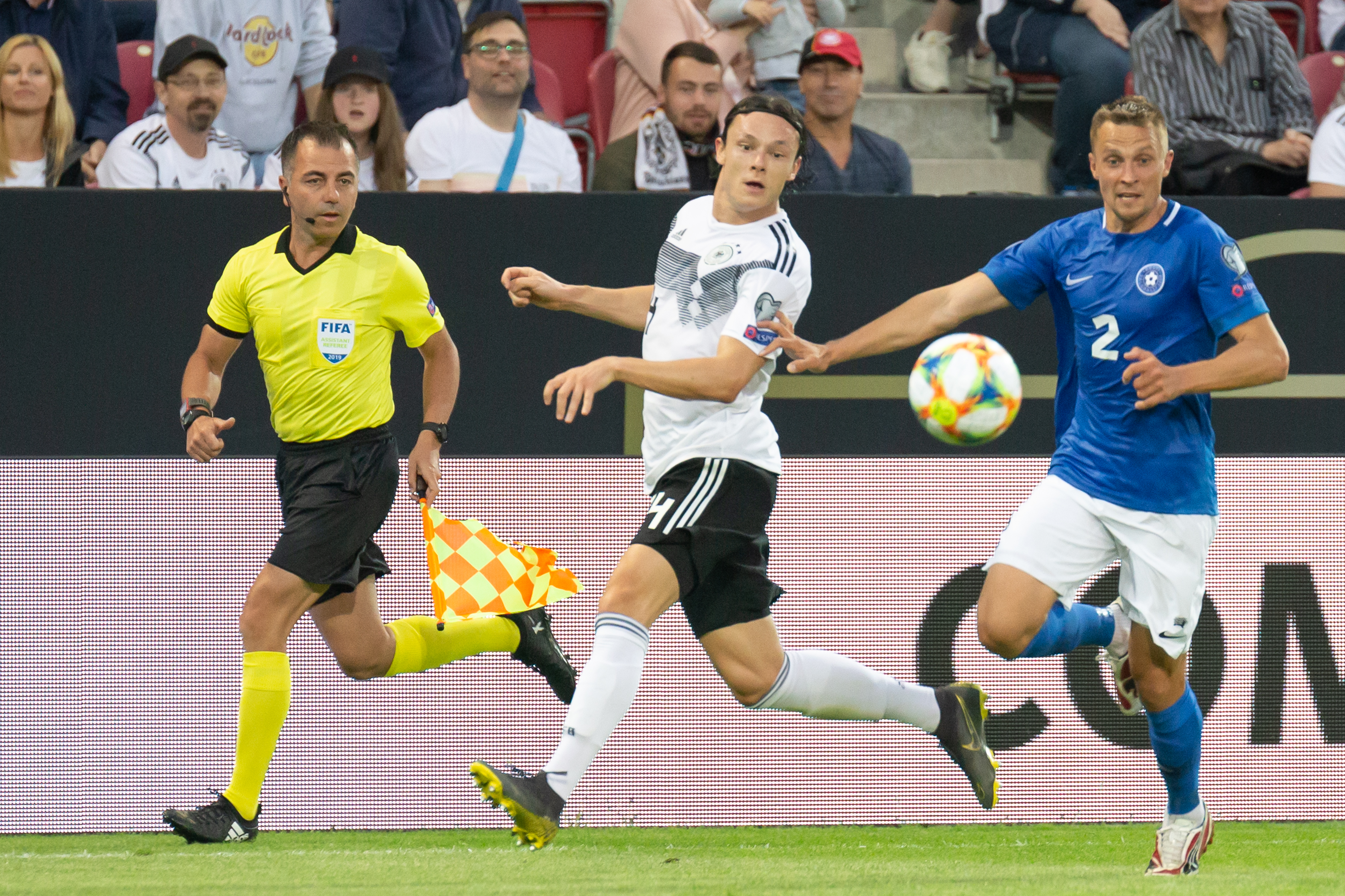 UEFA Euro 2020 qualifier Germany-Estonia